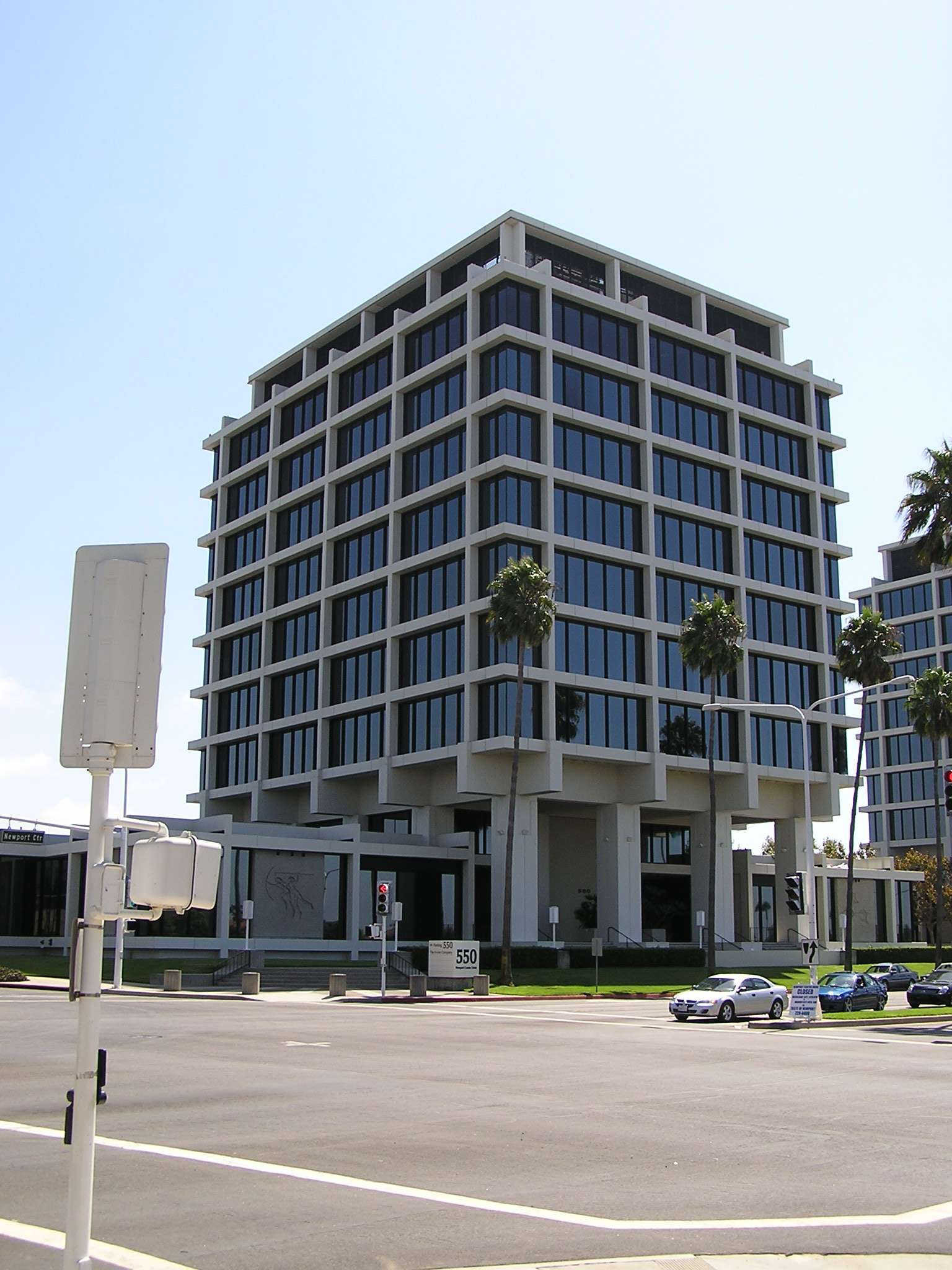 Headquarters of the Irvine Company - 550 Newport Center Drive, Newport Beach, CA.